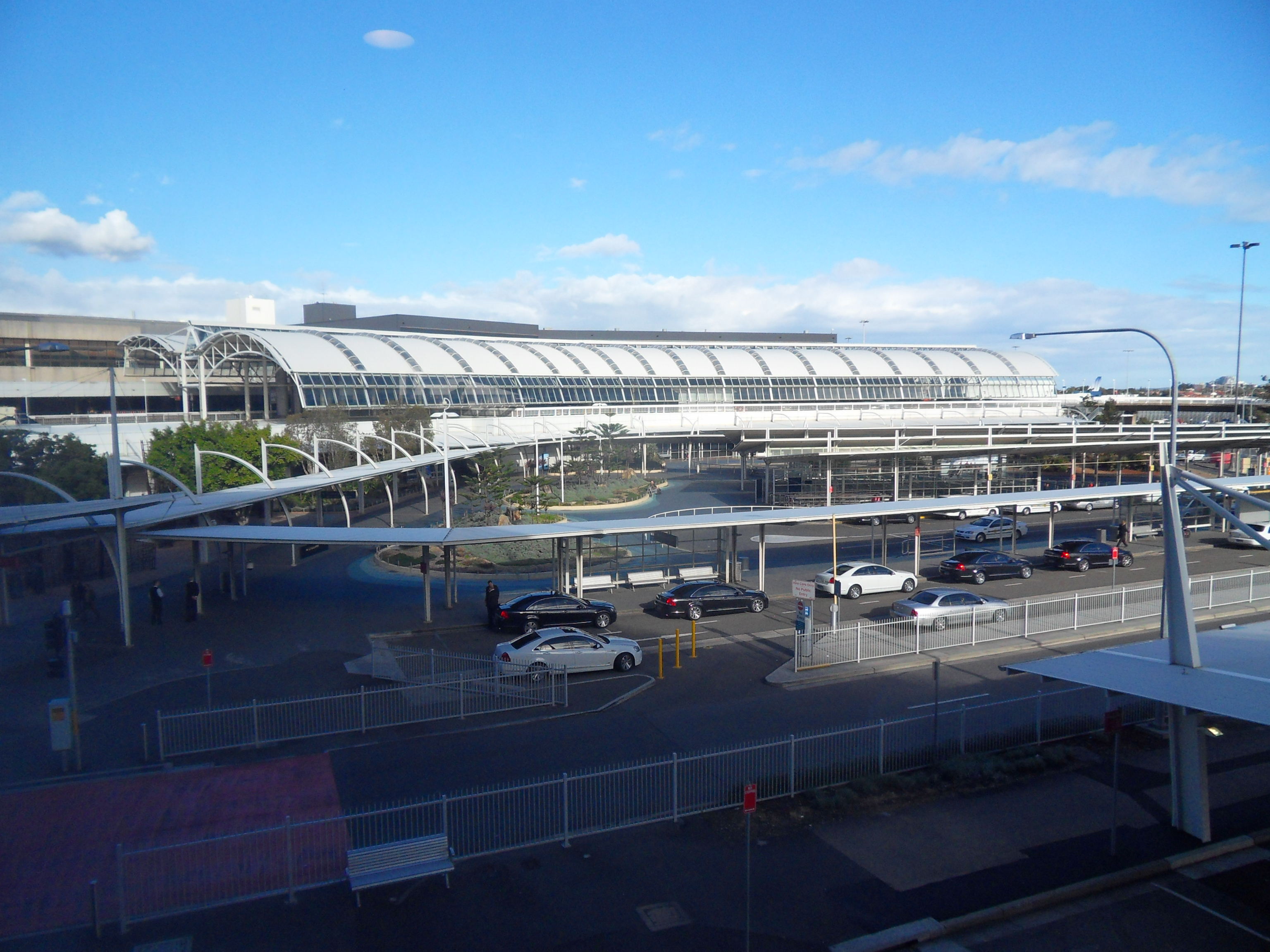 Sydney Airport July 2010